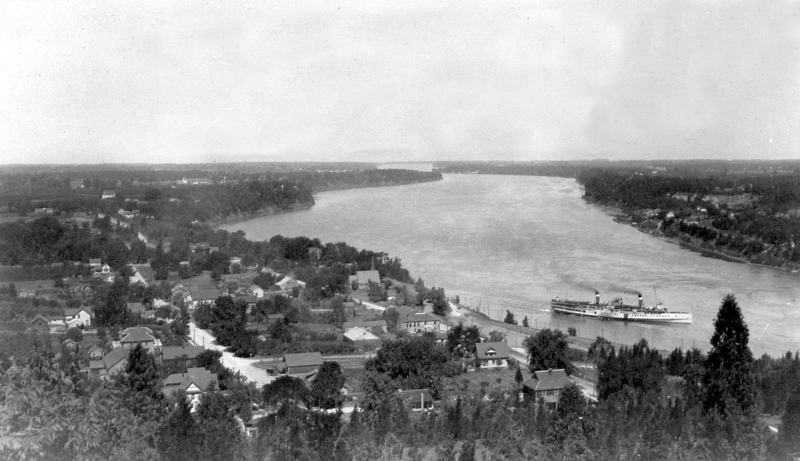 Original caption: “Historic village of Queenstown and Lower Niagara River, from Queenston Heights, Canada.”